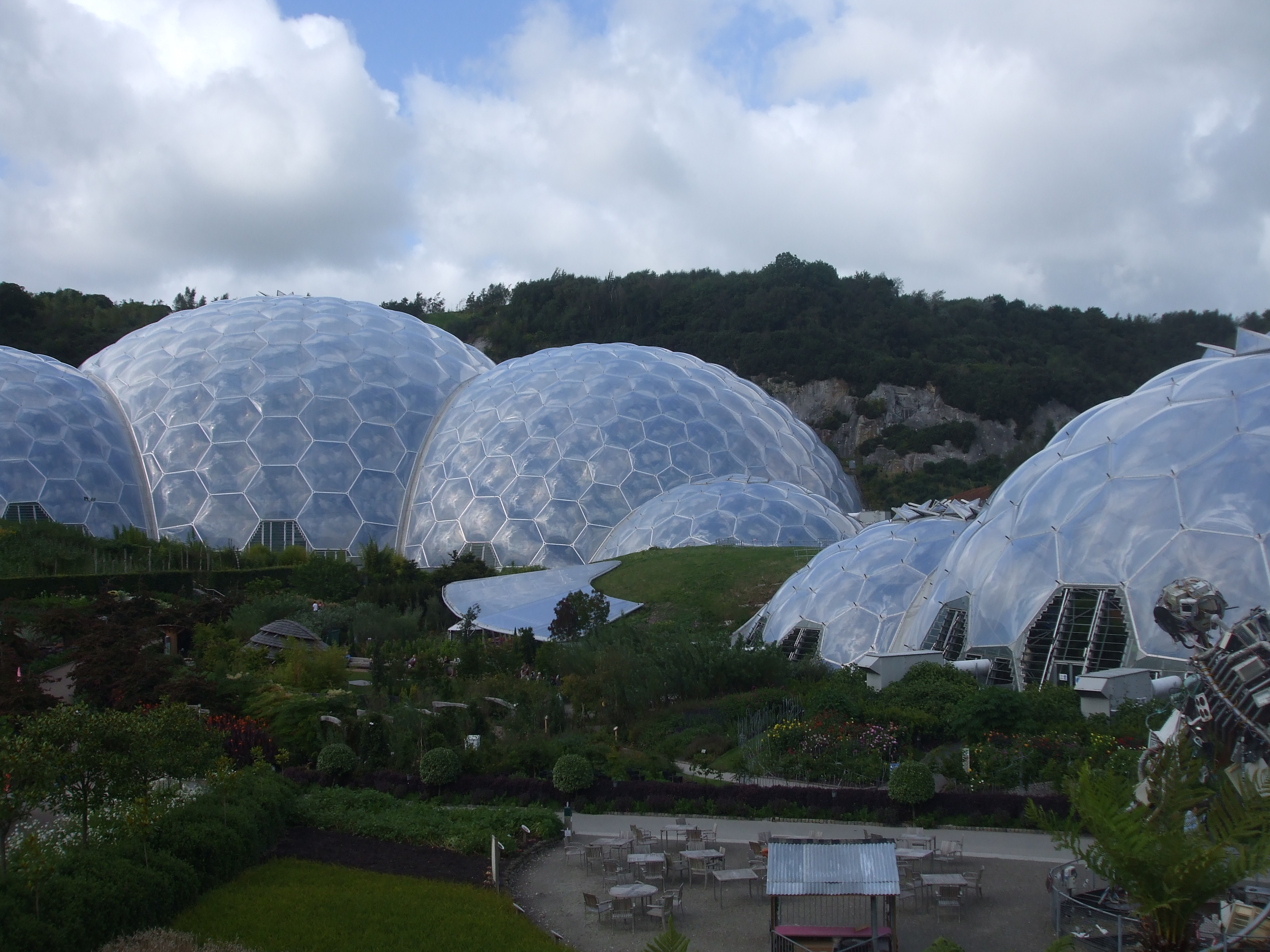 Eden Project Biosphere